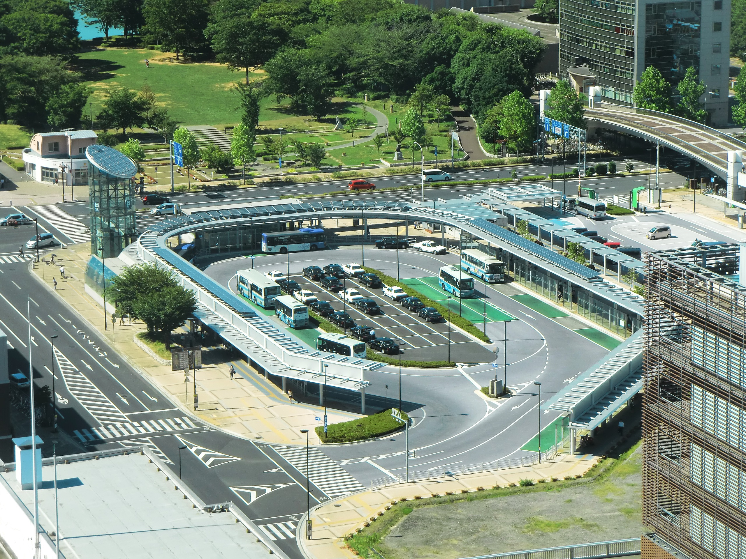 View of Tsukuba Center bus terminal in Tsukuba city, Ibaraki prefecture, Japan. This picture was taken from Tsukuba-Mitsui building 20th floor.